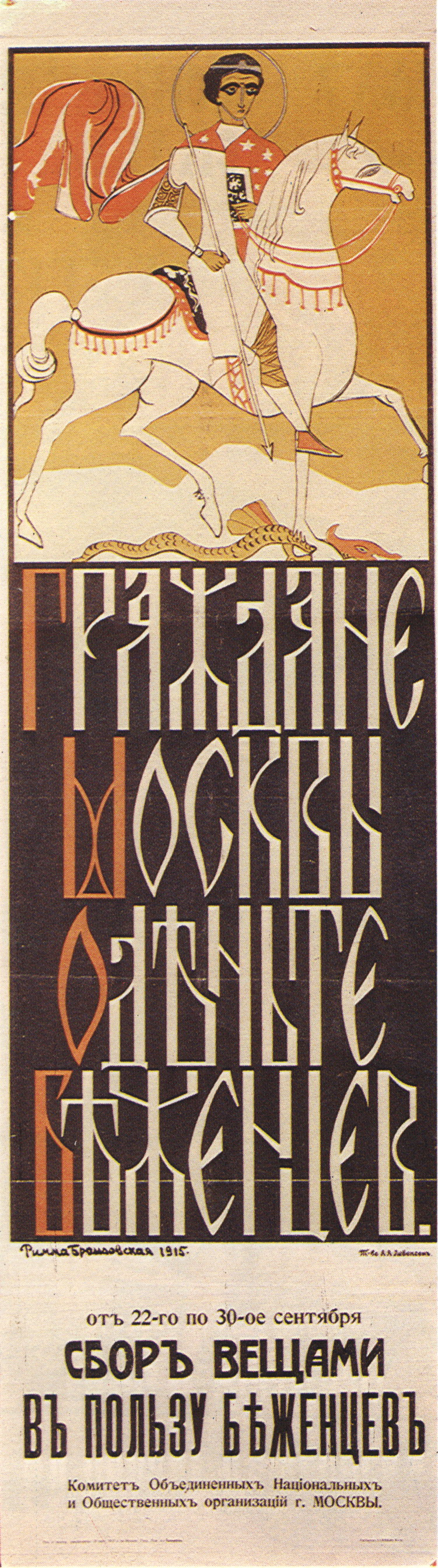 poster